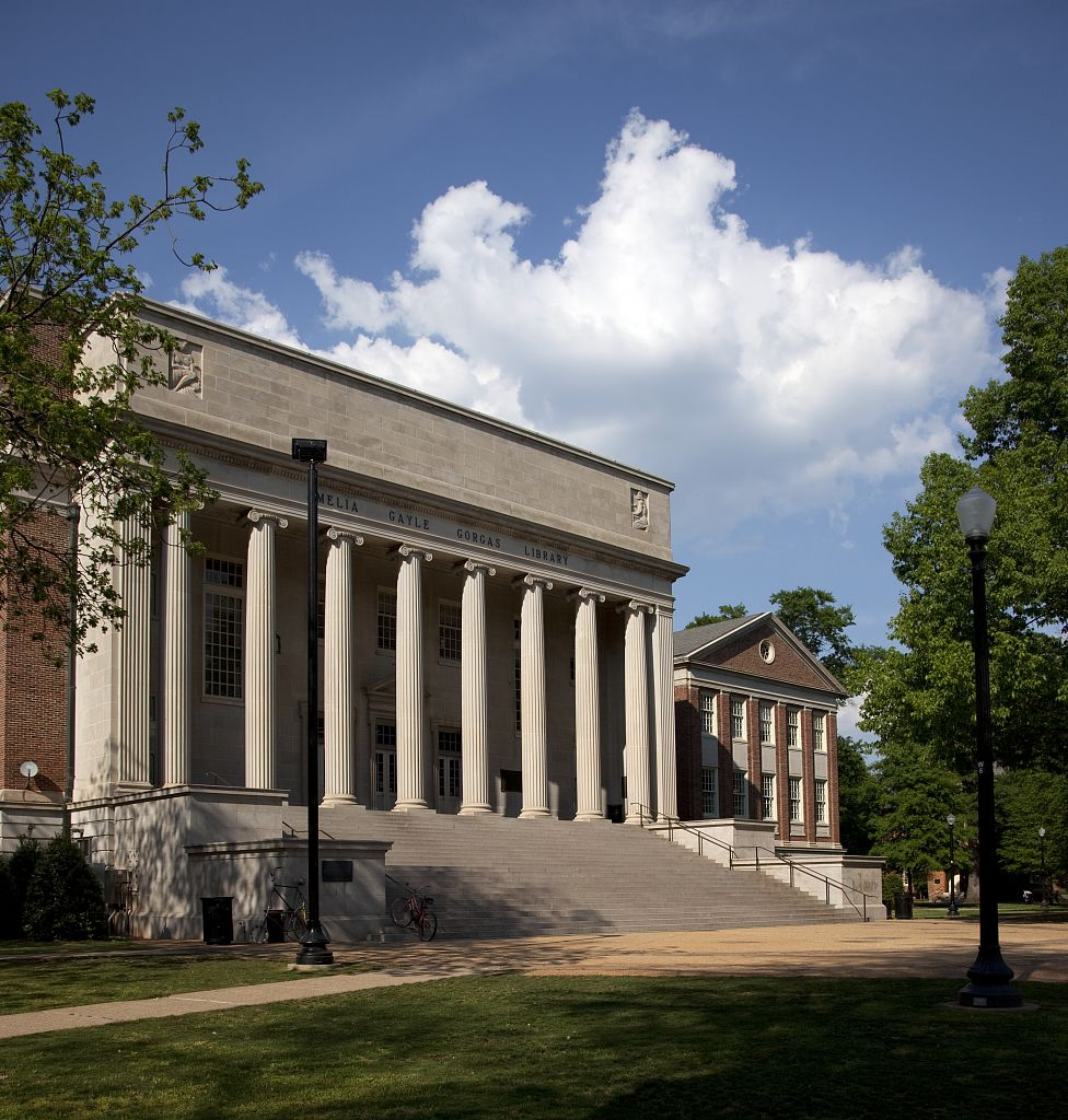 University of Alabama Library, Tuscaloosa, Alabama